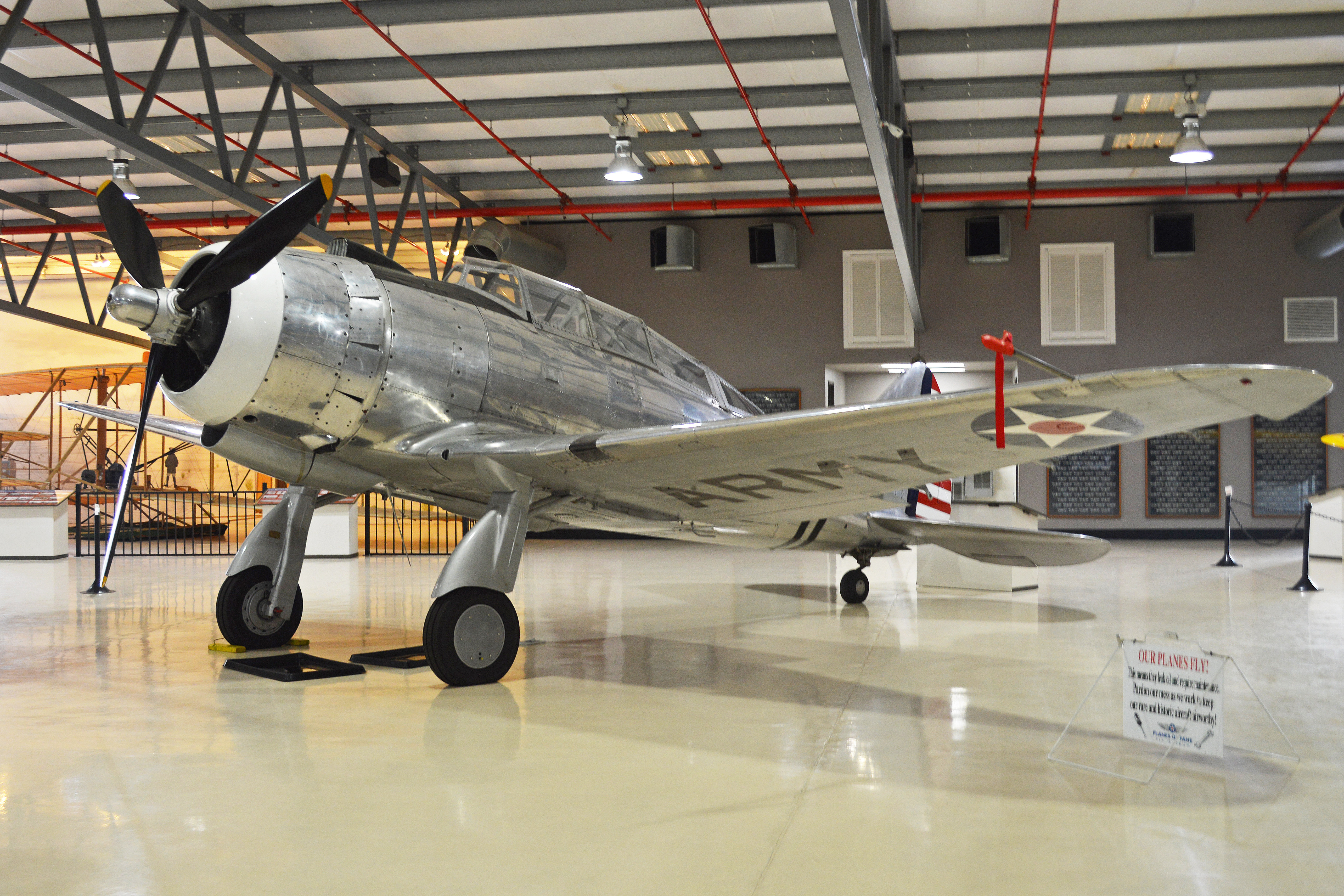 c/n 483-38. US military serial 41-17529. Later saw service with the El Salvadorian Air Force as ‘YS-114’. This is the sole surviving AT-12. It is maintained in airworthy condition and occasionally flown. Seen on display in the Maloney hangar at the Planes of Fame Museum, Chino, California, USA. 28-2-2016